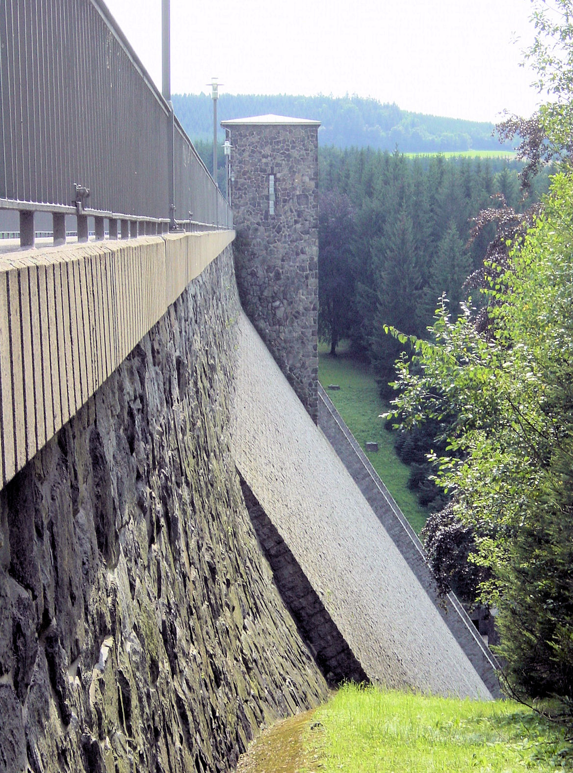 Lehnmuehle dam in Saxony, Germany